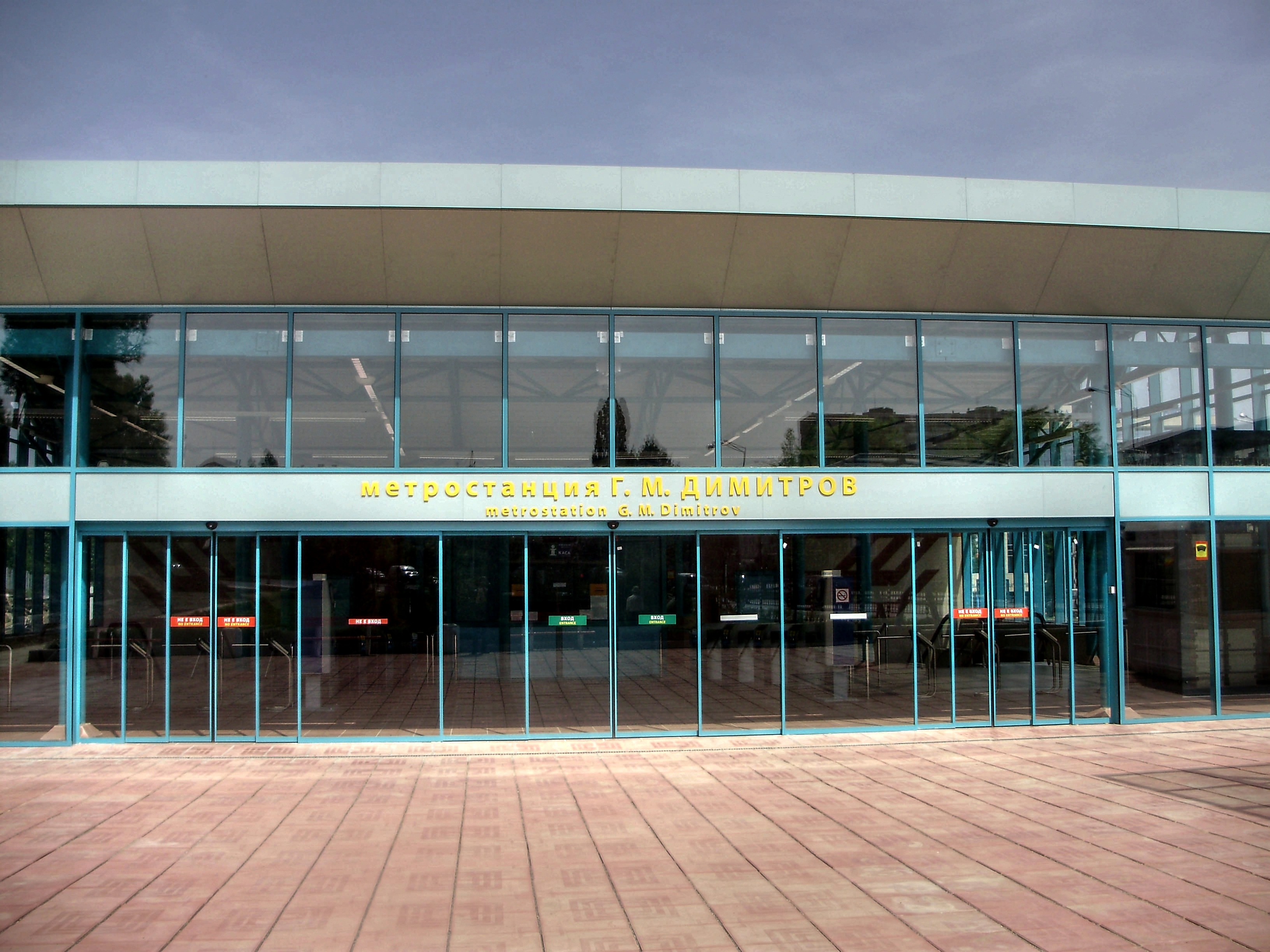 metrostation G.M.Dimitrov